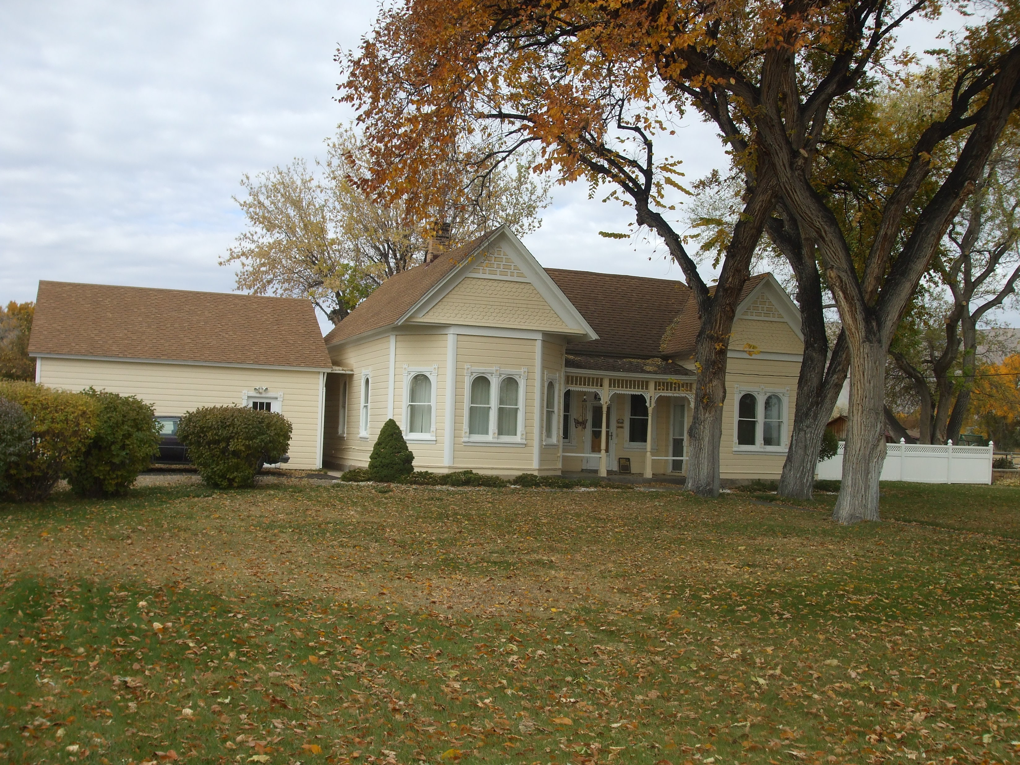 The Samuel Singleton House, a historic home in Ferron, Utah, United States.